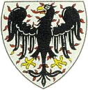 Coat of arms of the Přemyslid royal dynasty from Bohemia, copy of Daniel Zeman's upload.